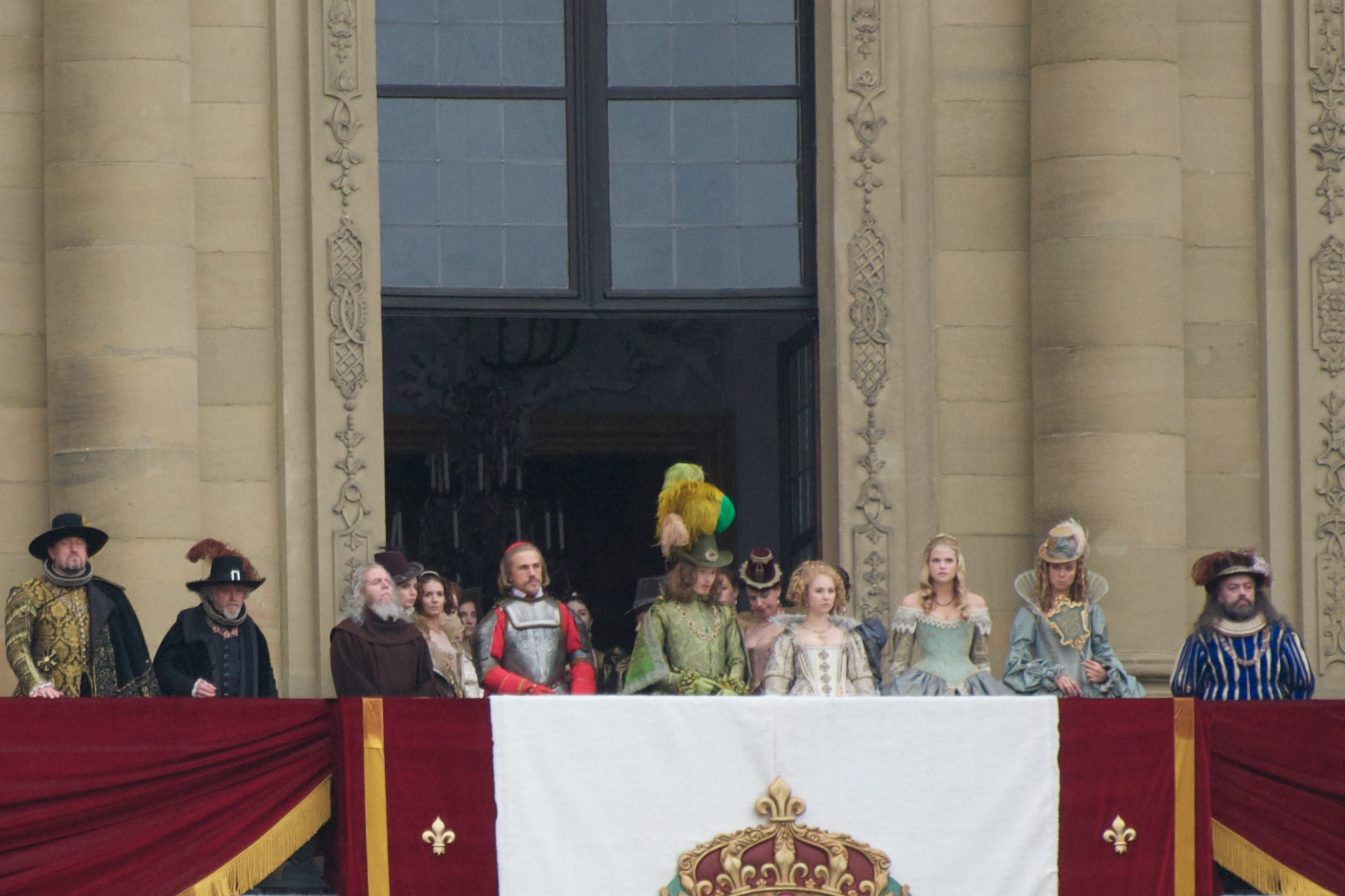 Behind the scenes photo of a balcony shot of the 2011 version of the Three Musketeers, being filmed at the Residenz in Würzburg Bavaria. From left to right: unknown, unknown, Peter Bähr, Christoph Waltz (in red sleeves), Freddie Fox (in green doublet), Juno Temple, Gabrielle Wilde, Nina Eichinger